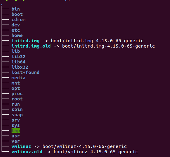 Ubuntu Filesystem Hierarchy